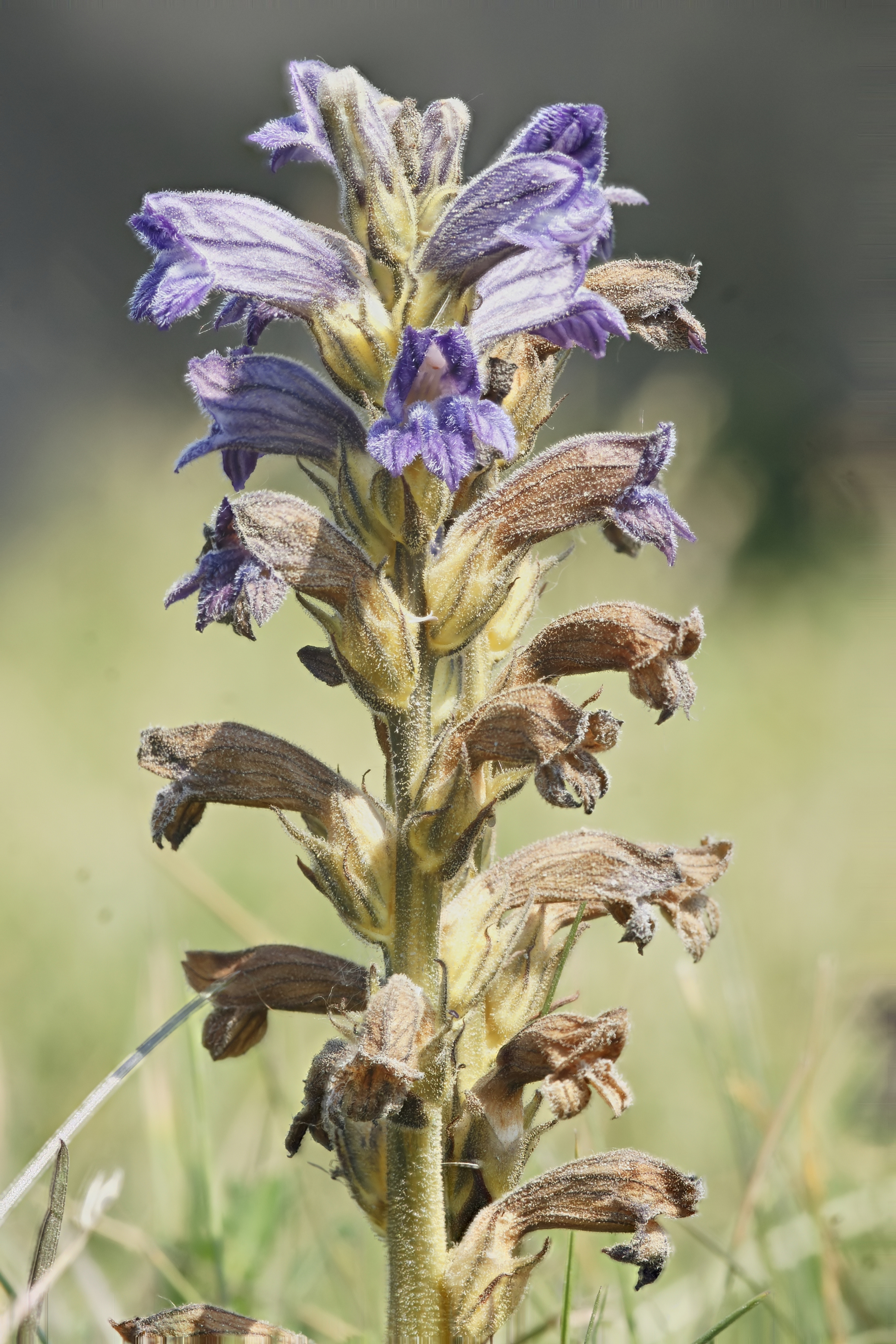 Yarrow Broomrape at Oostende, Belgium